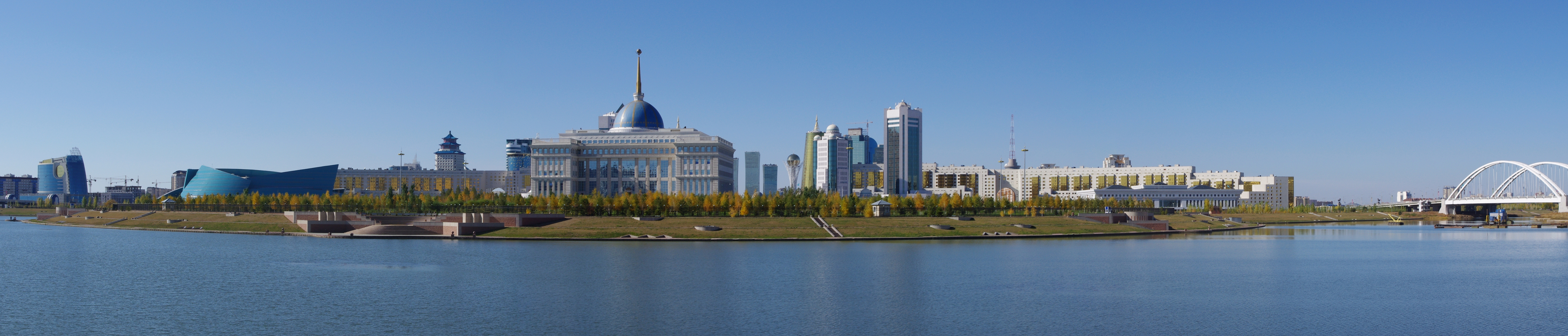 Central Downtown Nur-Sultan panorama: the domed building in the middle is the Ad Orda Presidential Palace. The wave-like building on the left is the Kazakhstan Central Concert Hall.